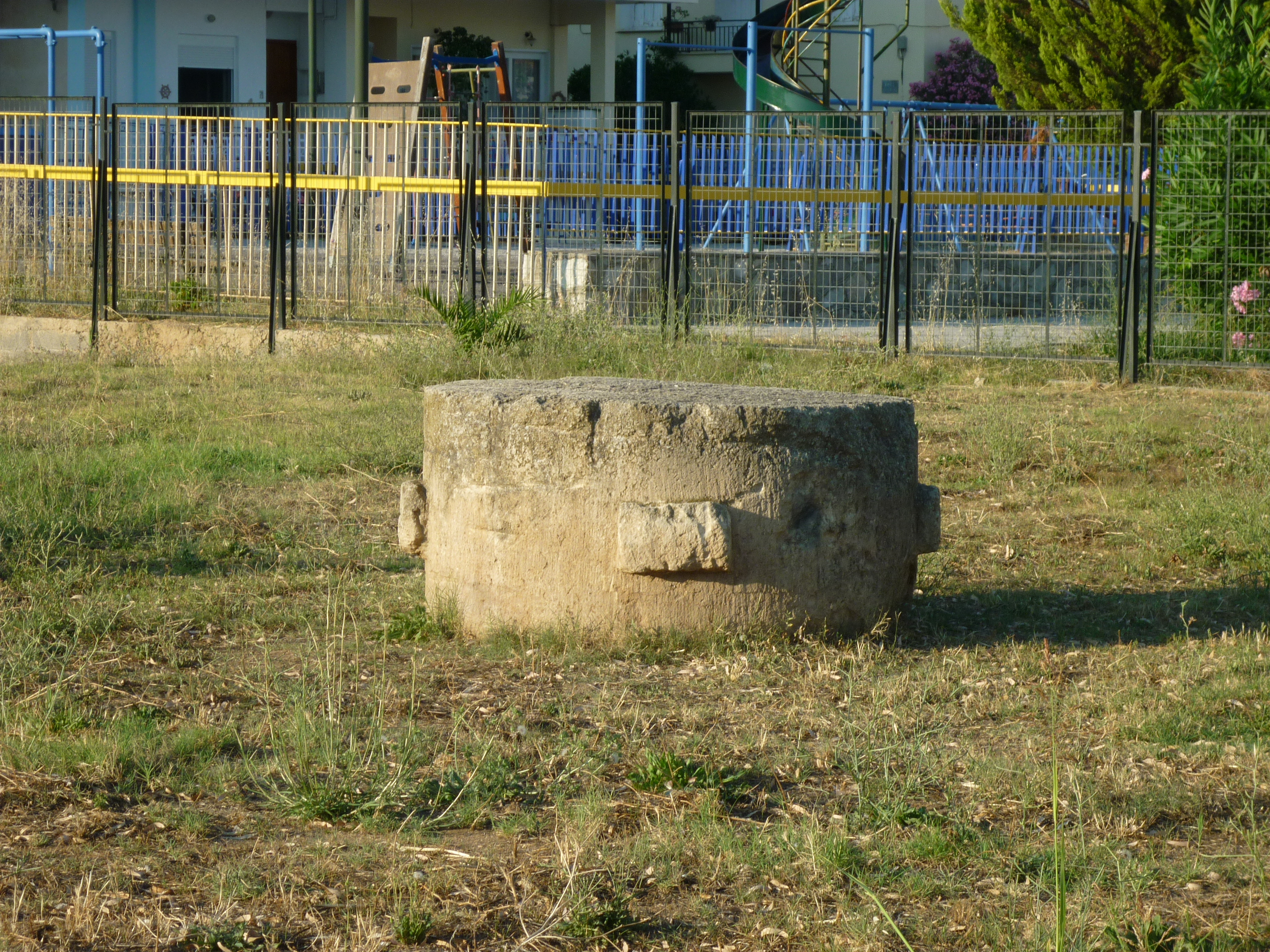 Kirra, Fokida, Greece: Half-finished cylindrical stone at the shipyards at the main square. It was designated as column drum at the Temple of Apollon at Delphi.